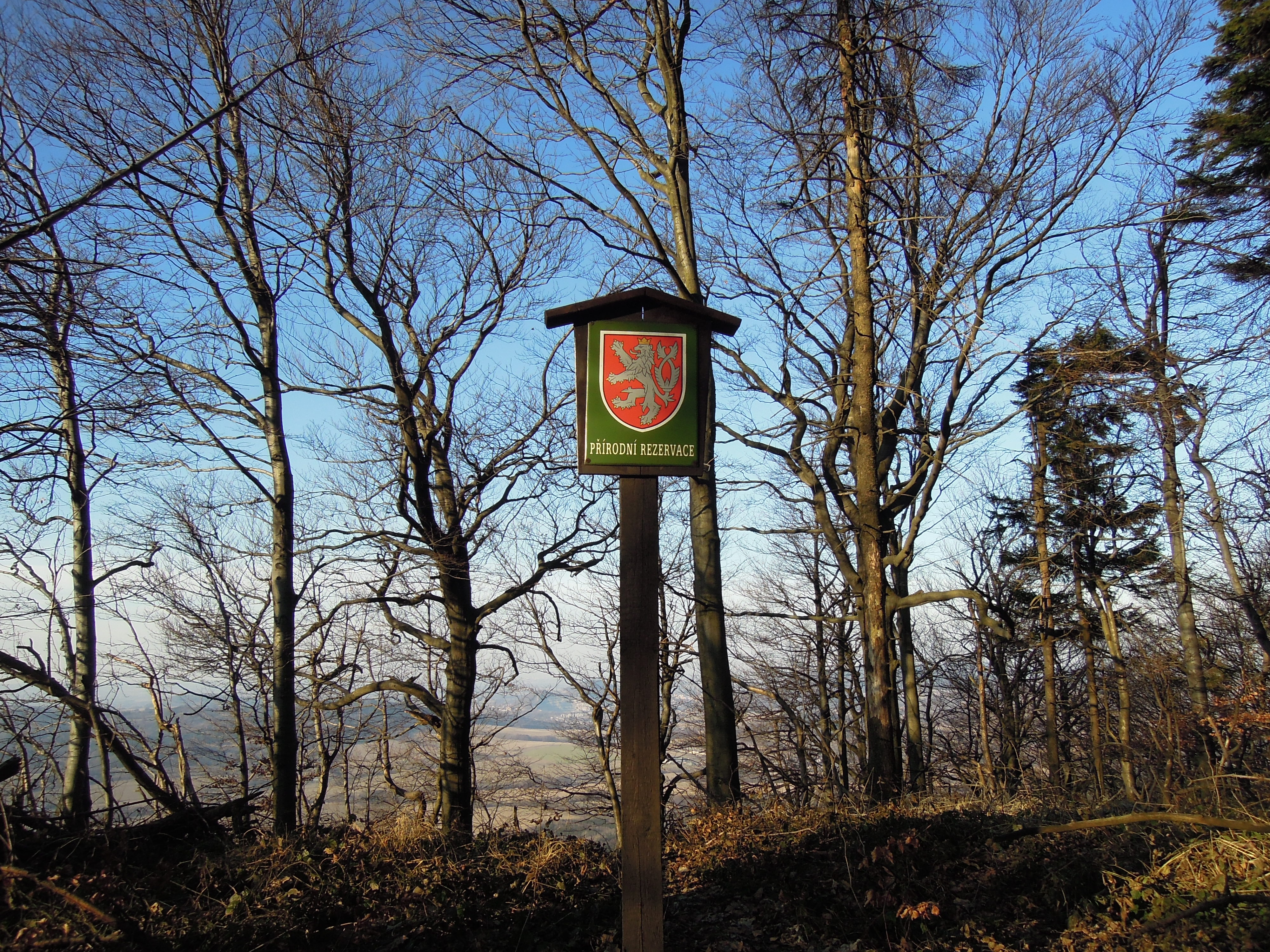 Huštýn nature reserve, Nový Jičín District, Moravian–Silesian Region, Czech Republic